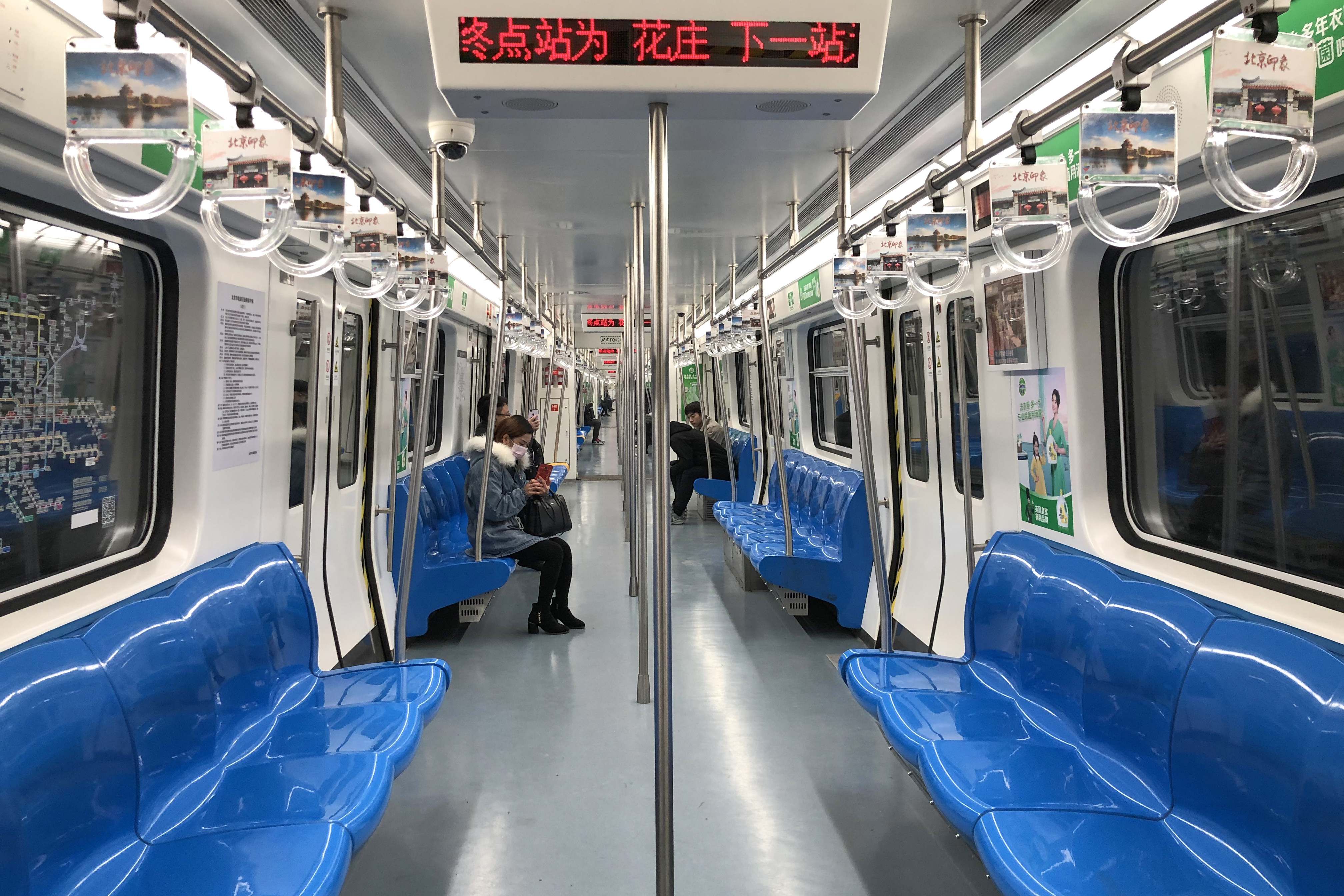 TQ424 is a SFM01, but modified by BSR in 2019.